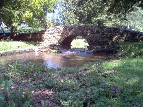 This is a picture of the bridge in Big Spring Park in Cedartown. The picture was taken from the water's edge, facing east. Karl Ward 21:42, 9 Sep 2004 (UTC) Captioned As {}